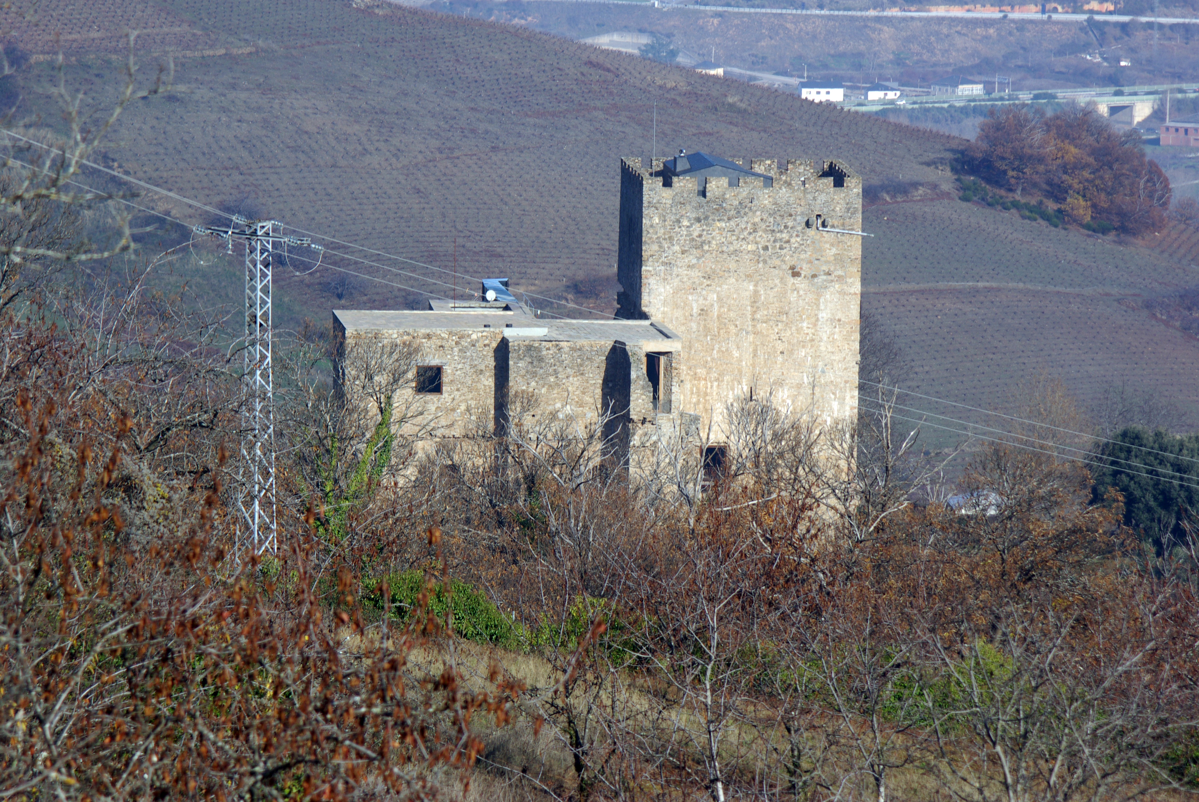 Corullón castle (León, Spain)